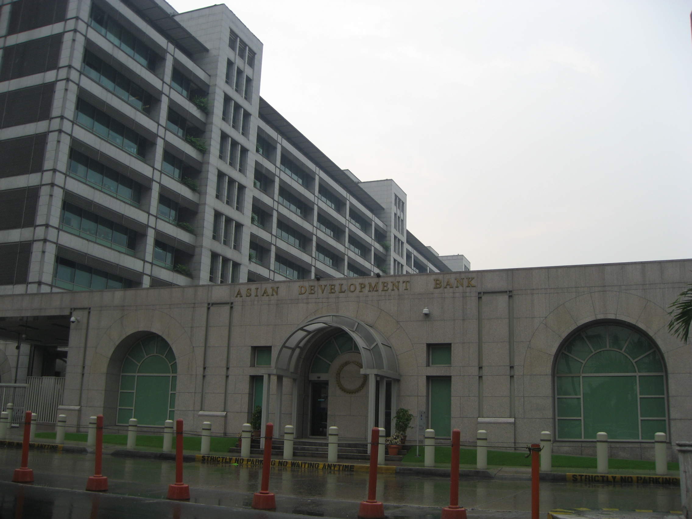 Picture of the main gate of the headquarters of the Asian Development Bank in Metro Manila in the Philippines.